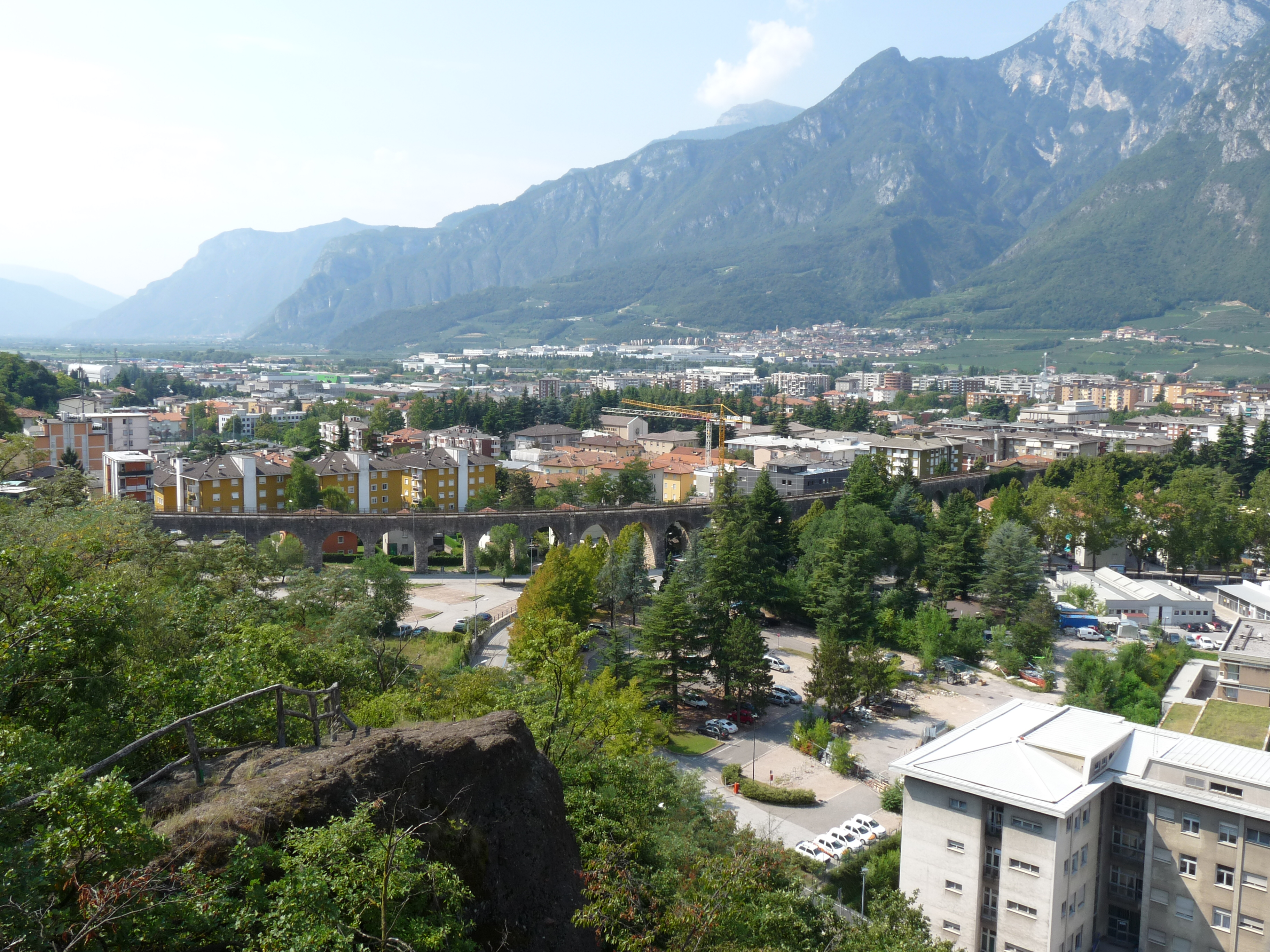 Trento (Italy): part of the viaduct of the Trento-Venice railway